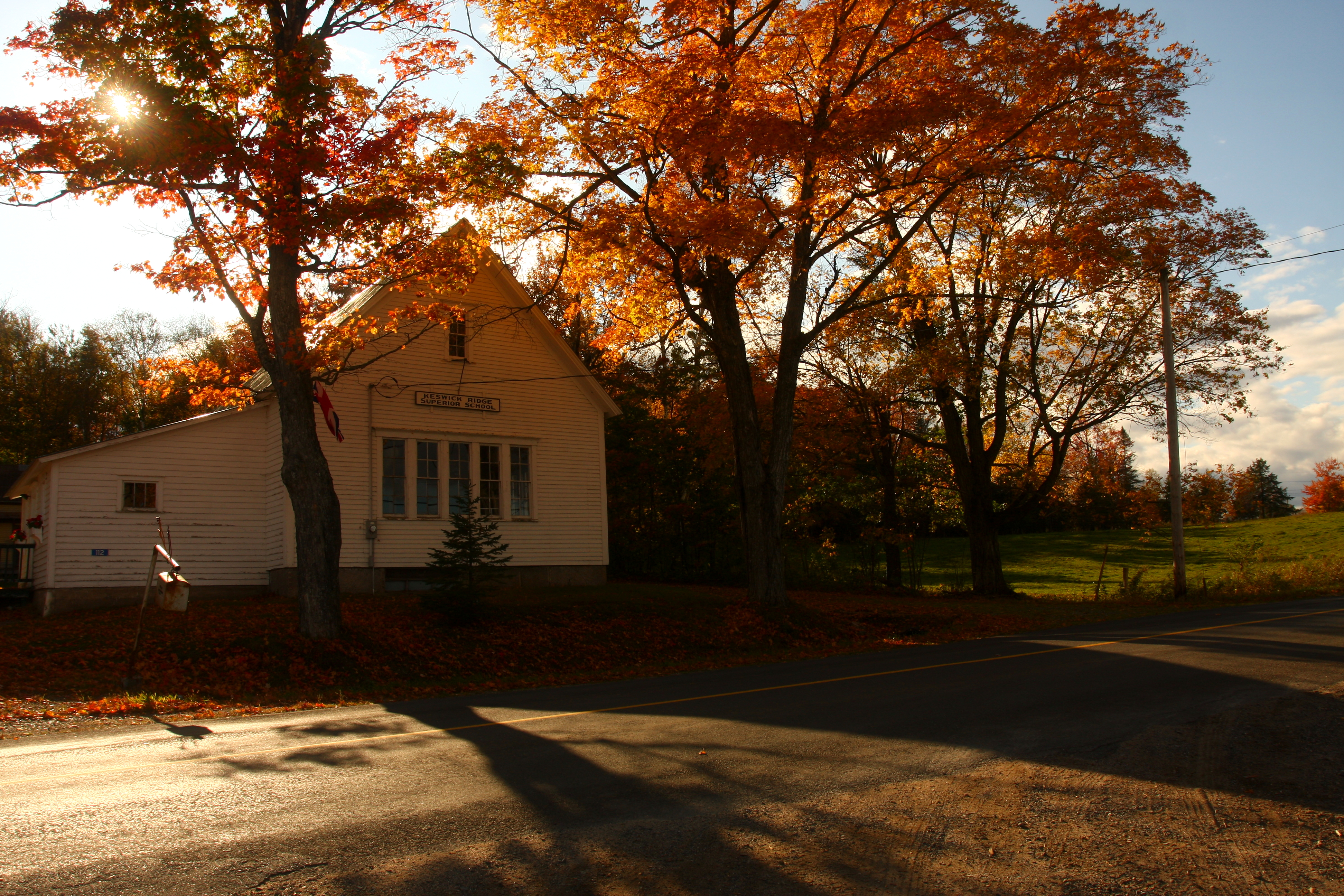 Keswick Ridge Superior School in Keswick Ridge, New Brunswick.